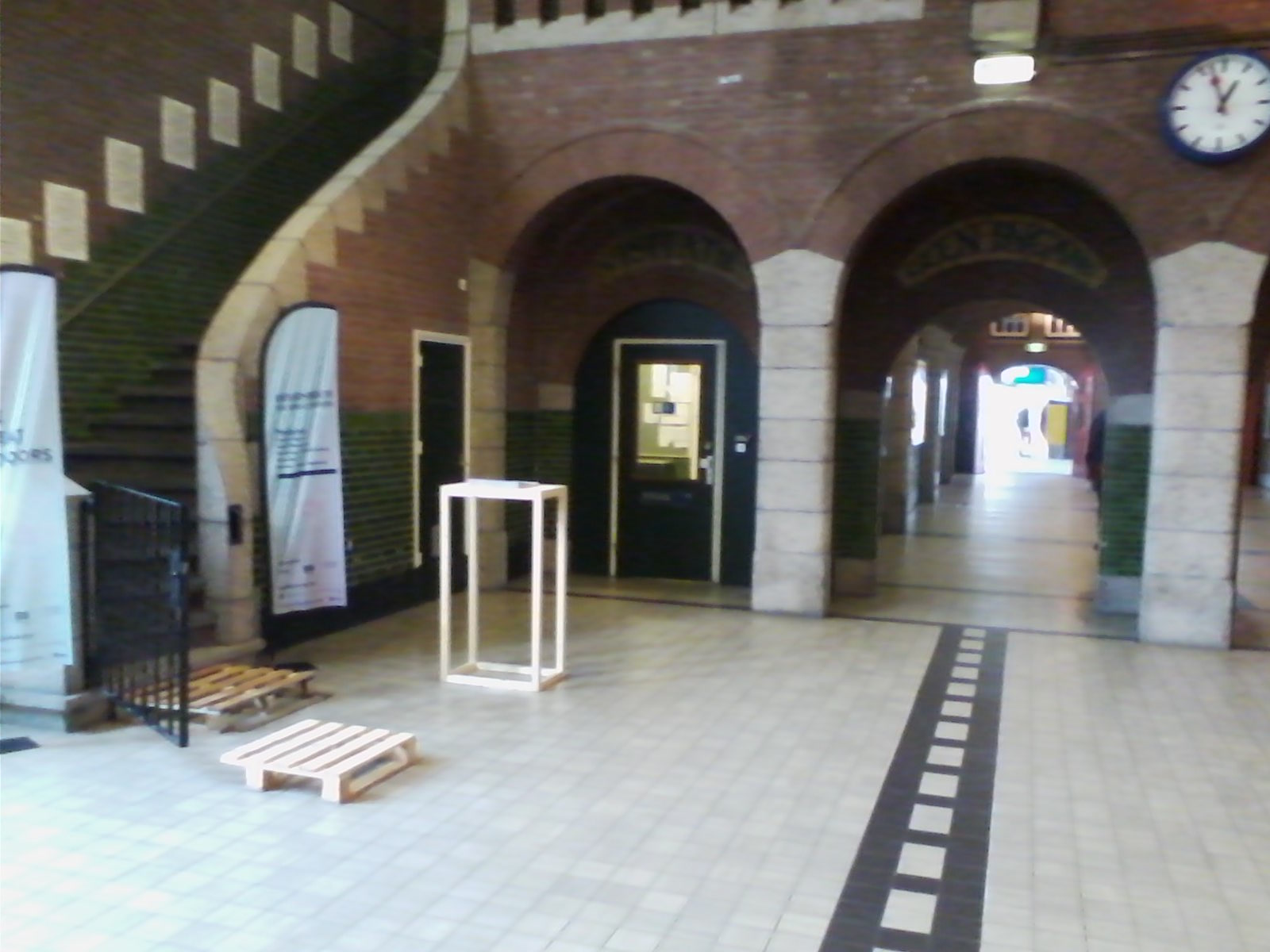 Hallway connecting the main hall to the platforms 1, 2 and 3 and the bus station. Old signs are still visible above the tunnels from the days that border customs were present in this station.